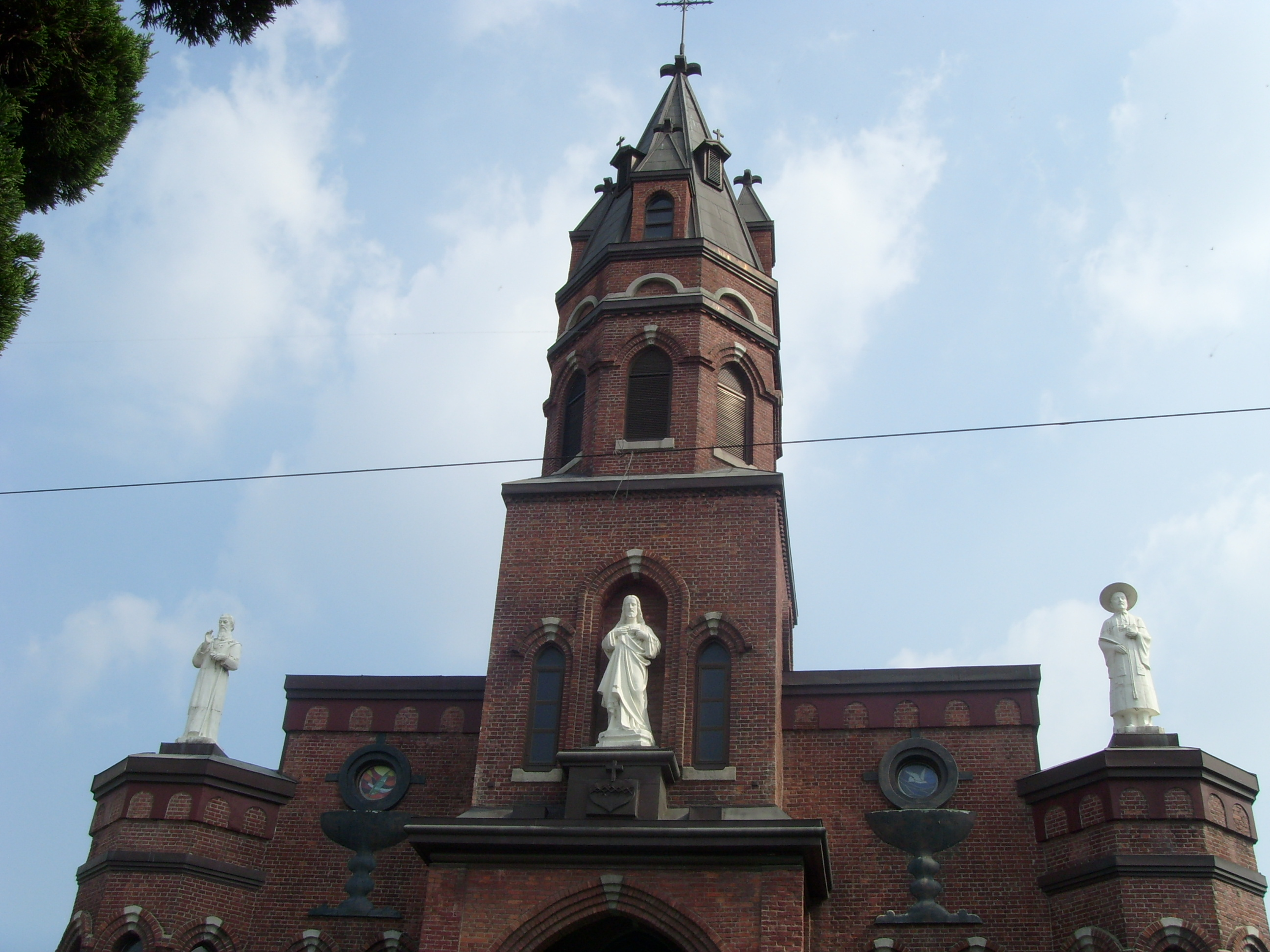 roof of Jungang cathedral, Jeonju